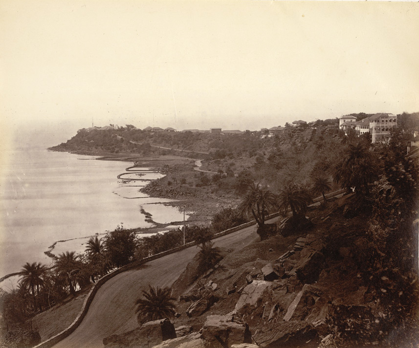 Photograph, "Malabar Point [Bombay], Govt. House." of Malabar Point in Bombay (Mumbai), Maharashtra, India by an unknown photographer, from an album of 40 prints taken in the 1860s. Sanjay Tiwari 13:22, 28 September 2006 (UTC)